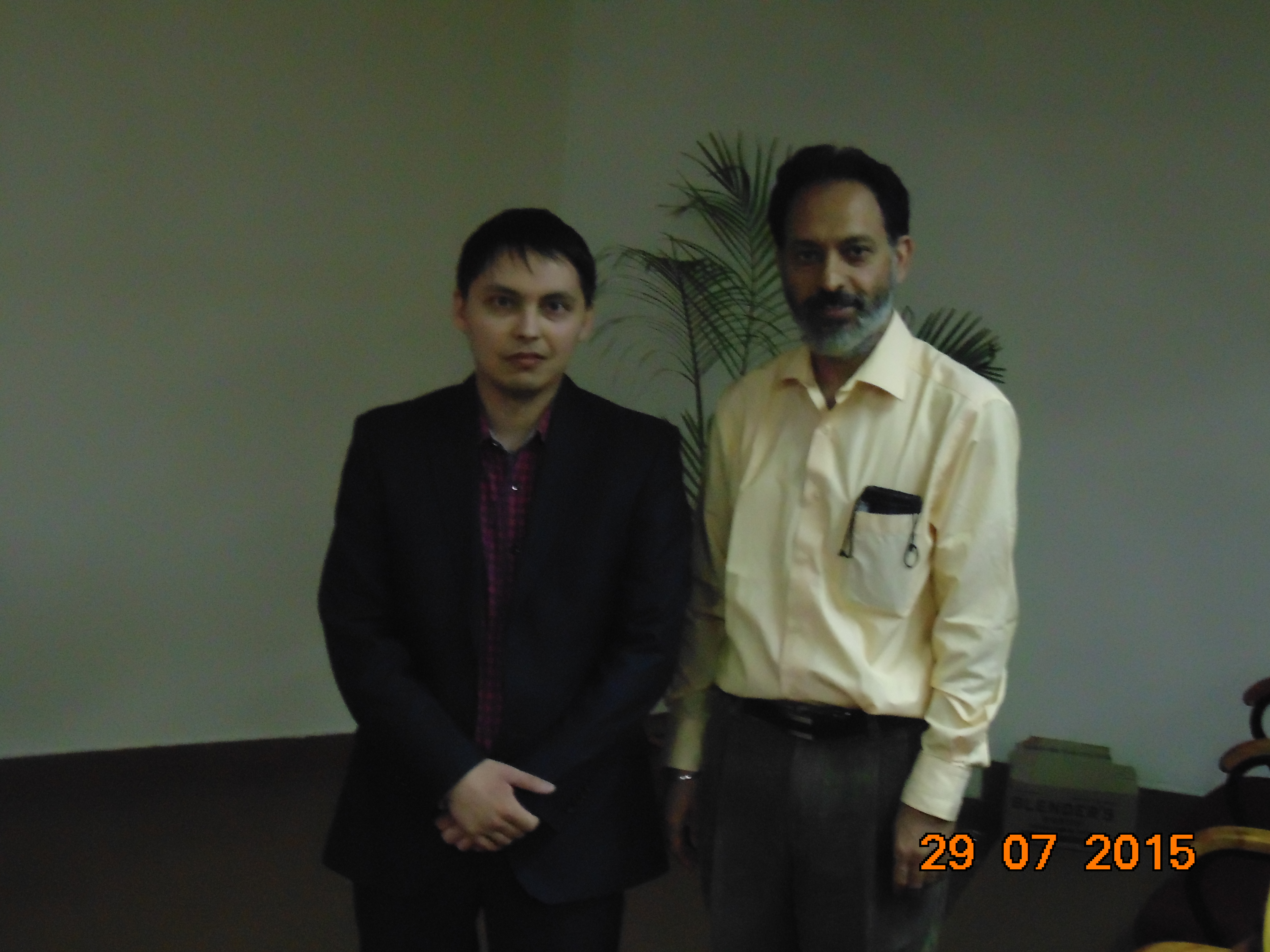 PhD student of BGMU (Bashkir State Medical University, Ufa, Russian Federation) Aleksandr Ialkaev and Prof. at NIPER (National Institute of Pharmaceutical Education and Research, Chandigarh, India) Inder Pal Singh in course "Pharmaceutical Quality by Design: a Risk based Approach" (NIPER, Chandigarh, India).